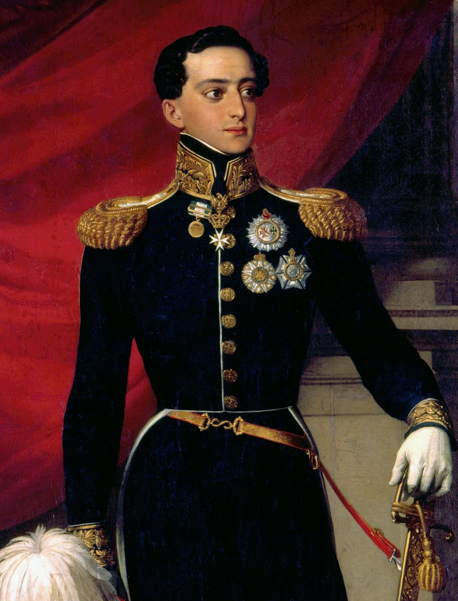 Michael of Braganza (1802-1866), as Infante of Portugal in exile in Vienna.